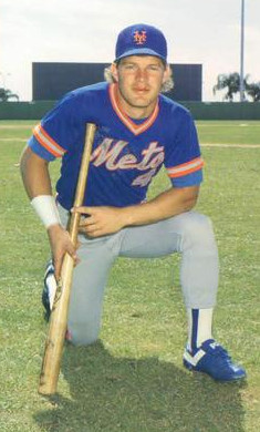 Professional baseball player Lenny Dykstra